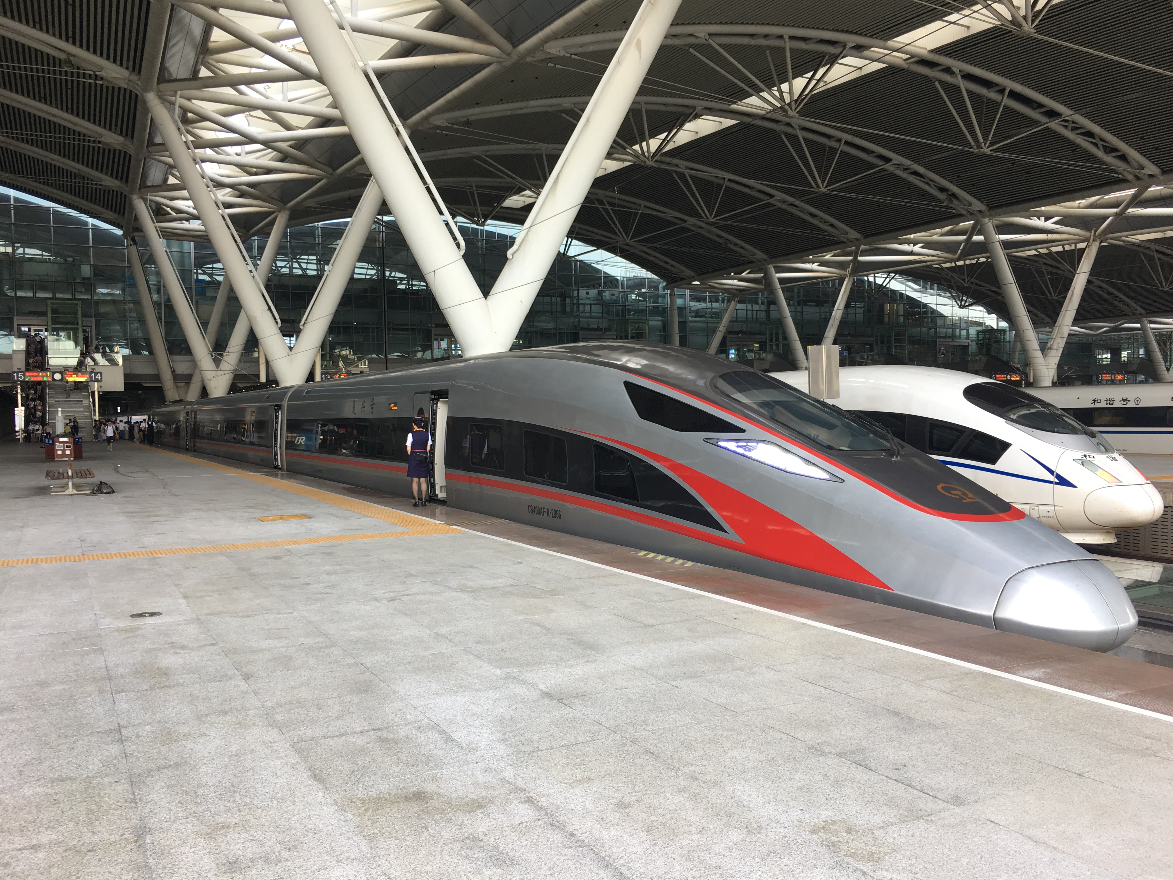 中文（香港）: This photo is taken in Guangzhounan.